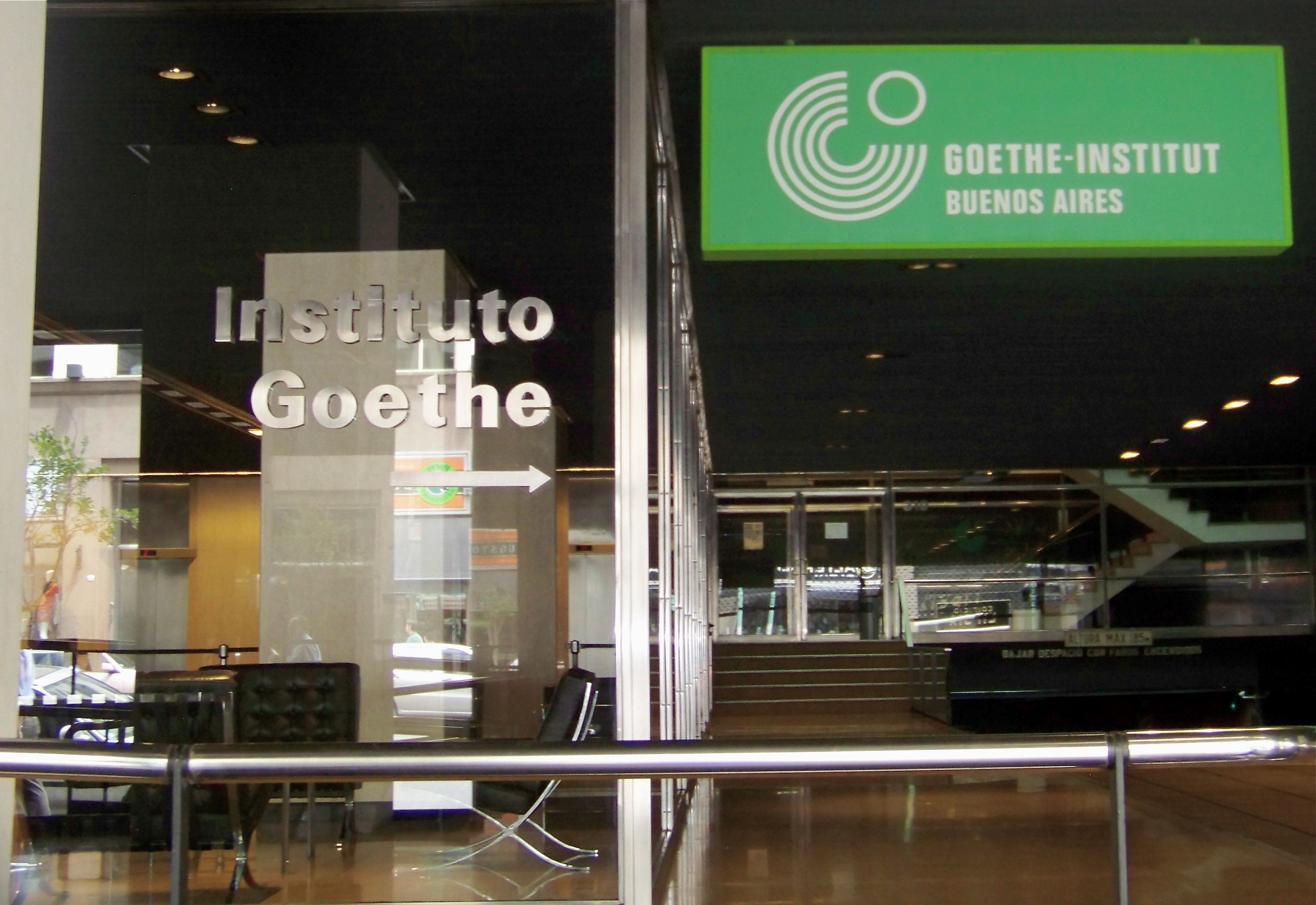 The Goethe-Institut Buenos Aires, Avenida Corrientes